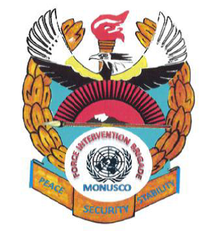 This is the Logo of the Force Intervention Brigade. Commissioned by Gen Mwakibolwa. Consists of elements of the national emblems of the three countries who contributed battalions to the FIB; South Africa, Tanzania and Malawi